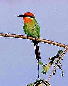 Boehm's bee-eater (Merops boehmi) in Malawi